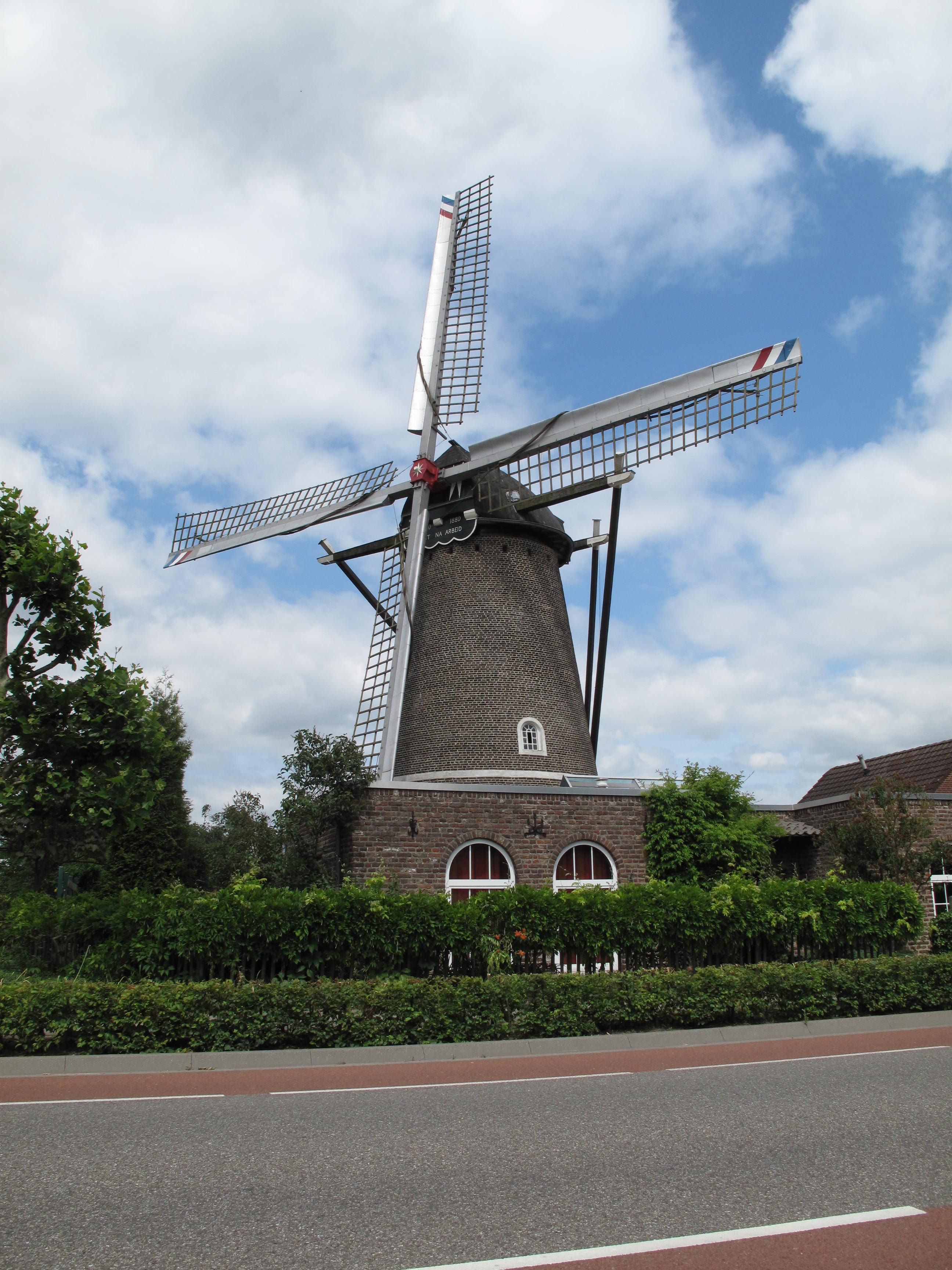 Ven Zelderheide, windmill: molen Rust na Arbeid